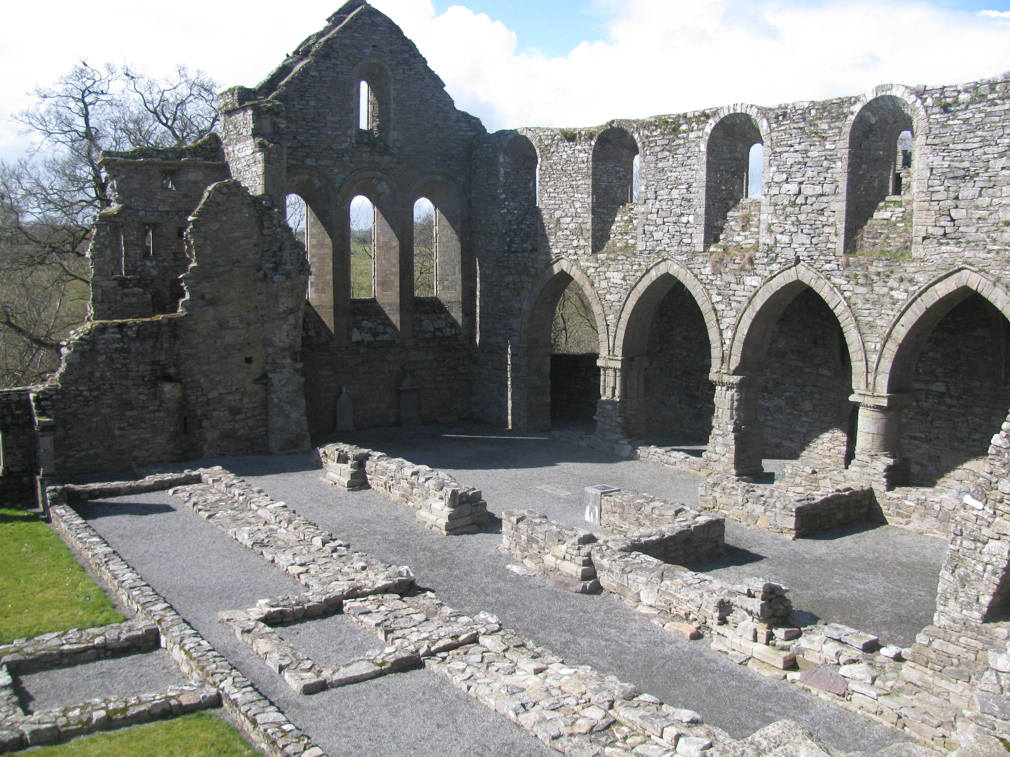 Jerpoint Abbey, Thomastown, Co Kilkenny - Cistercian abbey, founded c. 1180